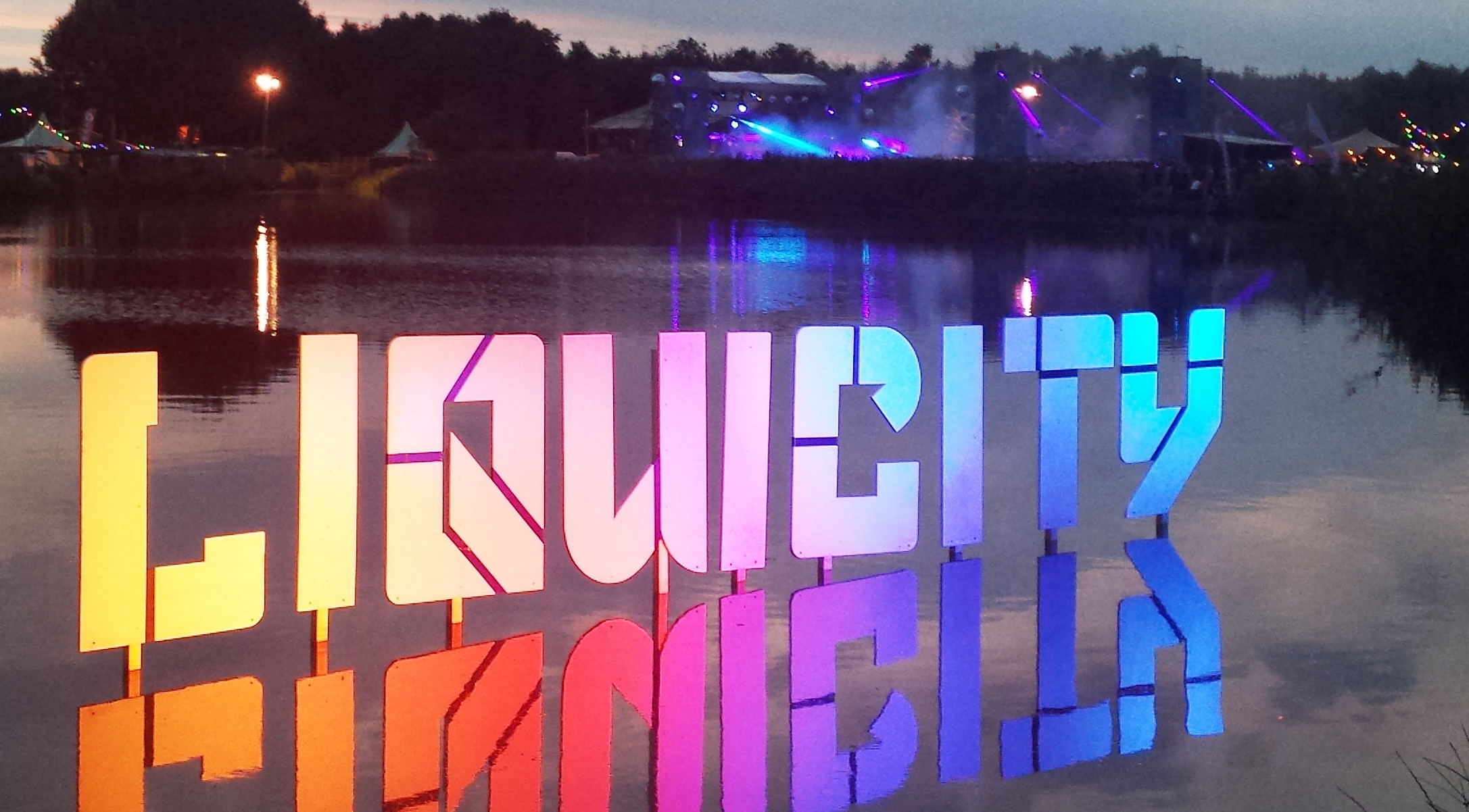 Liquicity sign at Liquicity Festival 2016, Diemerbos near Amsterdam.